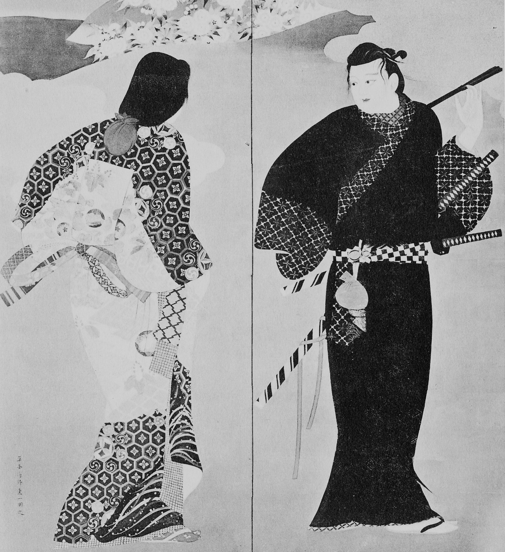 Couple by Keiichi